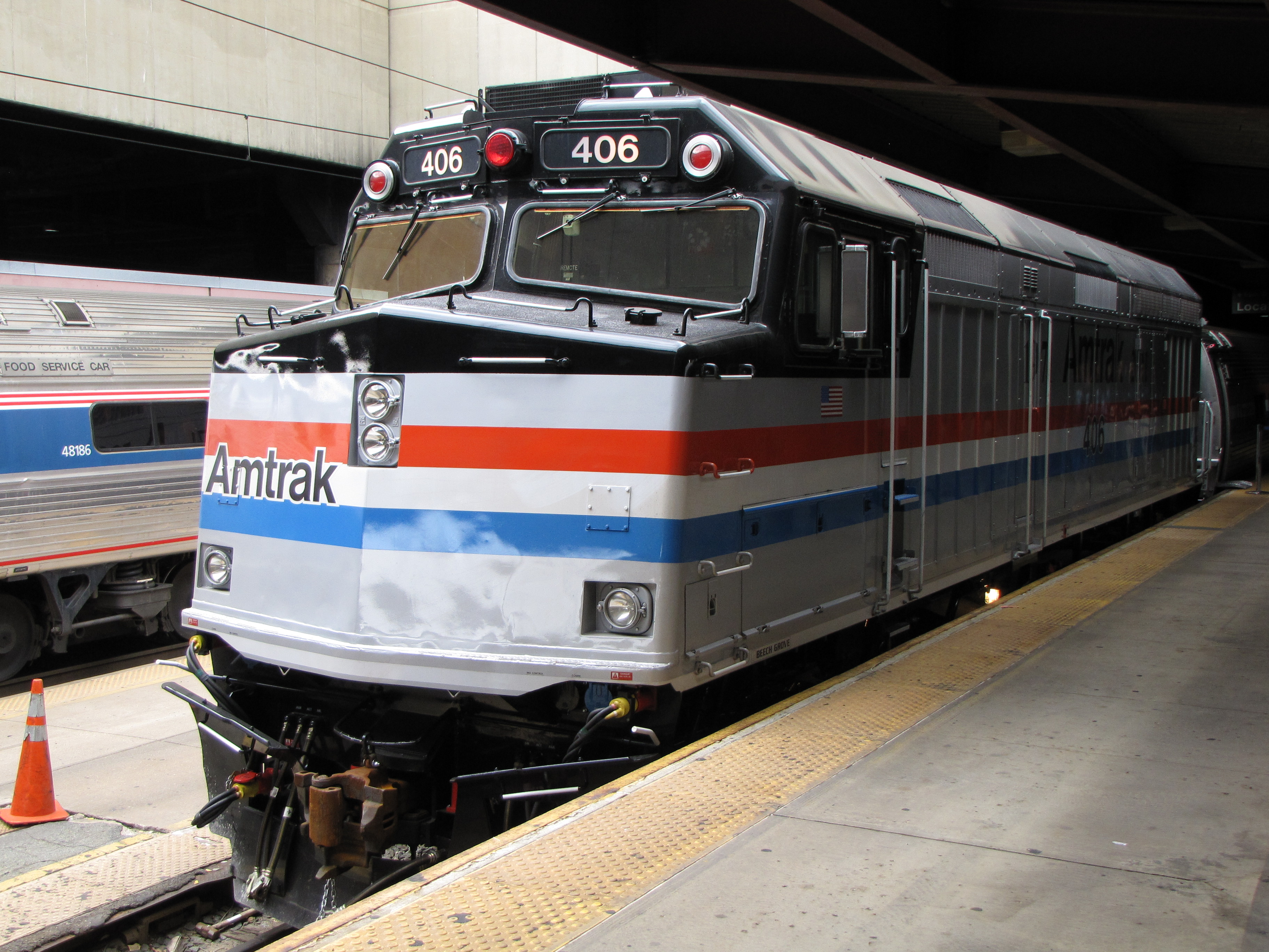 Amtrak locomotive 406, on display for National Train Day at Washington Union Station.